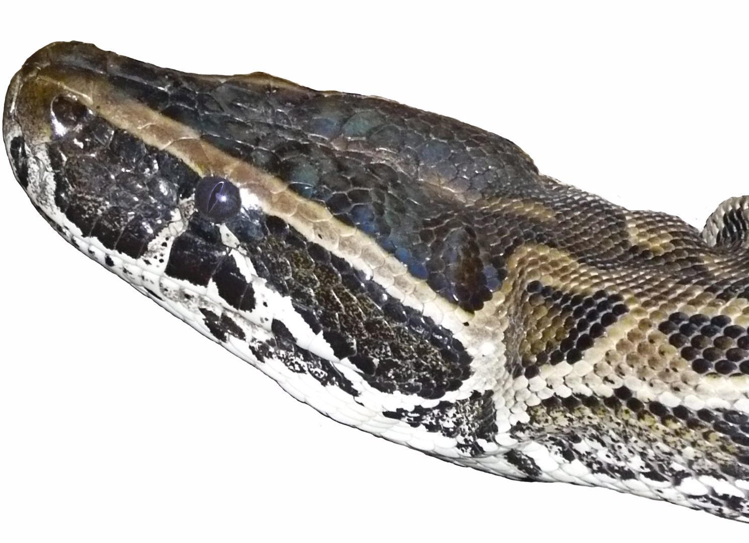 Northern African Rock Python (Python sebae) This animal lives in captivity.